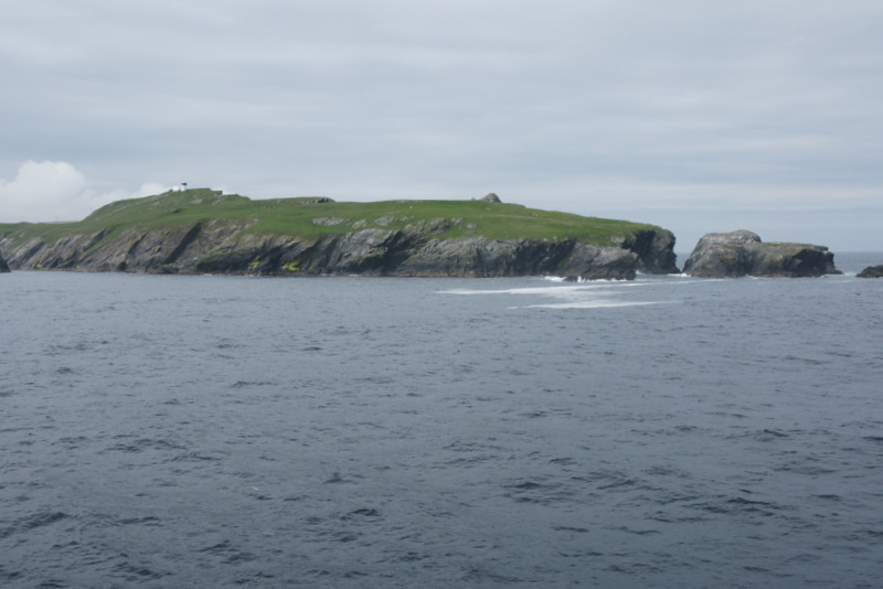 Point of Fethaland